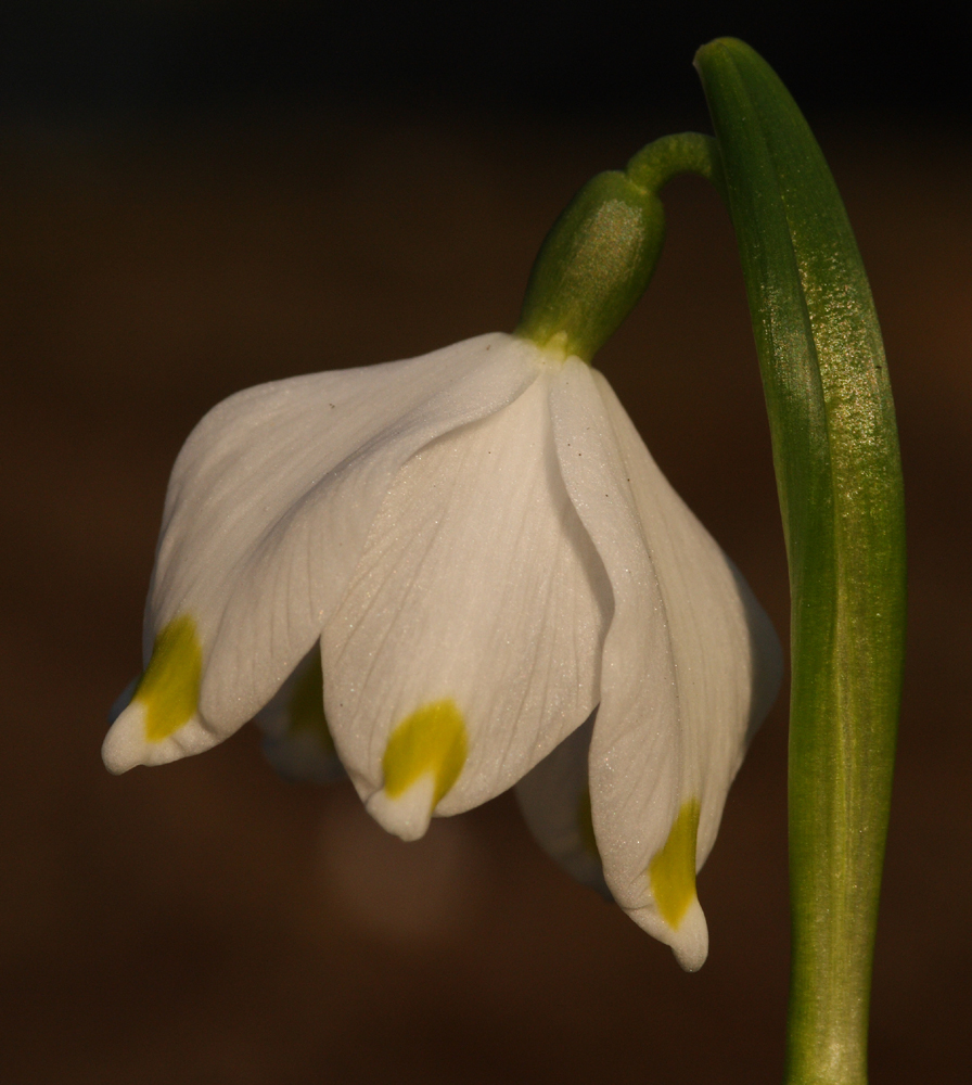 Leucojum vernum, Csáfordjánosfa, Hungary